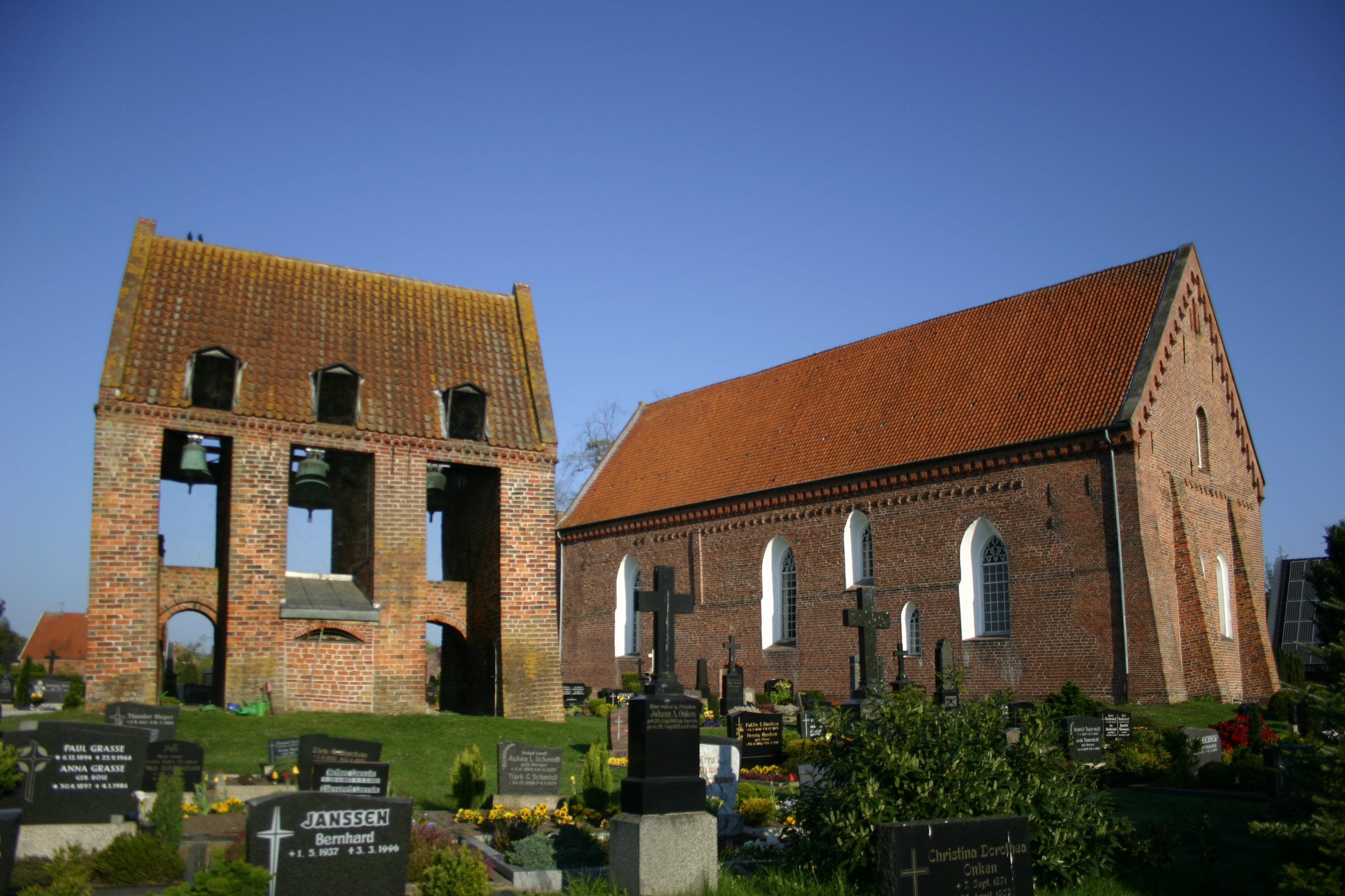 Historic church in Holtrop, district of Aurich, East Frisia, Germany